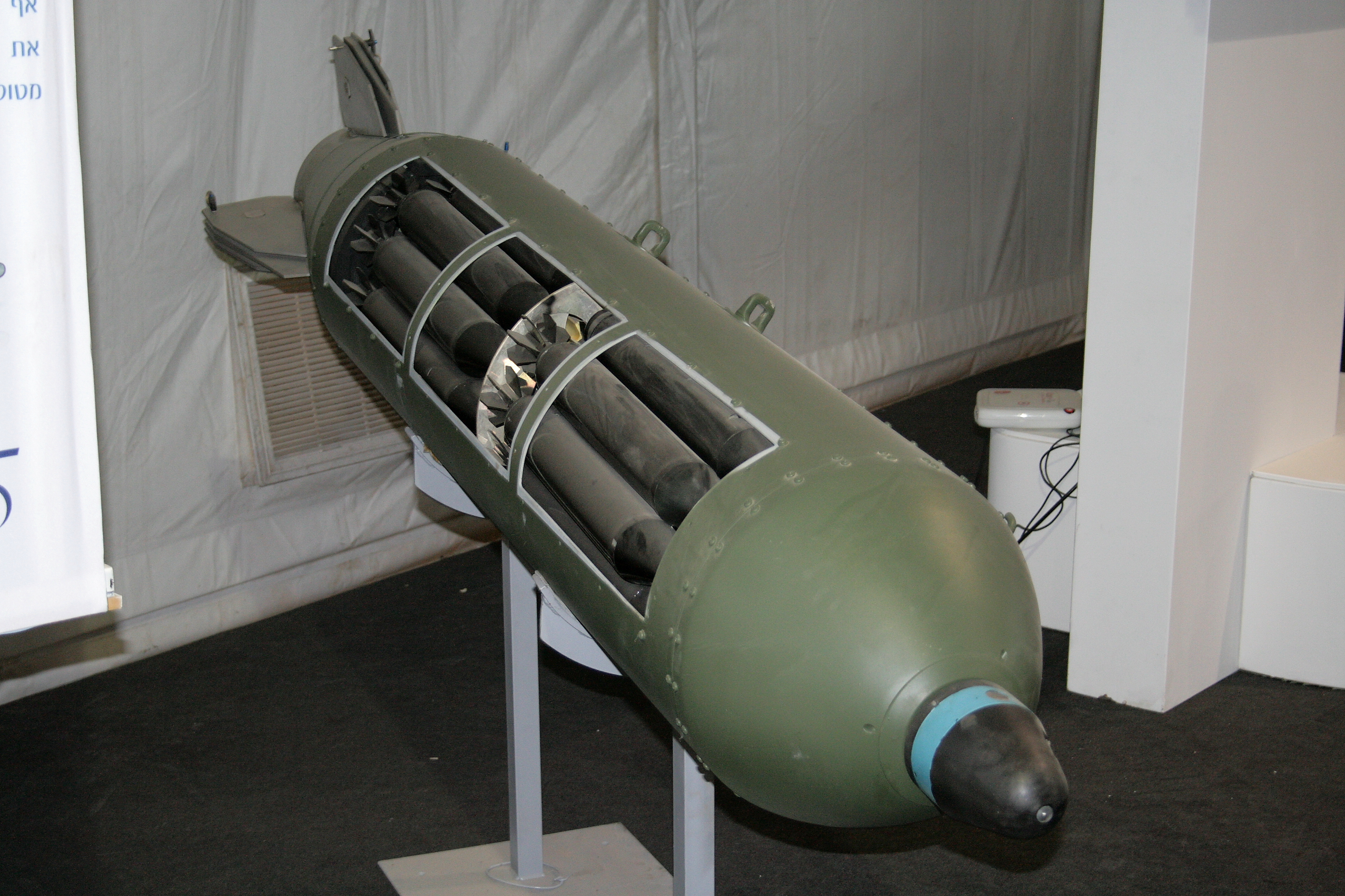 'Israel Military Industries' (IMI) produced 'Runway Attack Munition' (RAM) cluster bomb with penetrating submunitions.